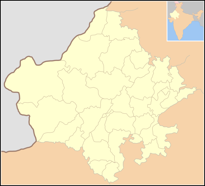 Blank - Map of Rajasthan state, India with district boundaries.